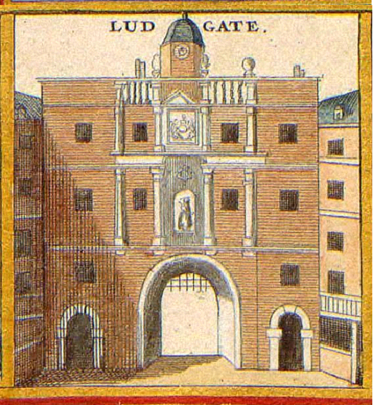 "Lugate", a crop of a 1690 map of London with boxed illustrations of the gates of below plan of city (full map).